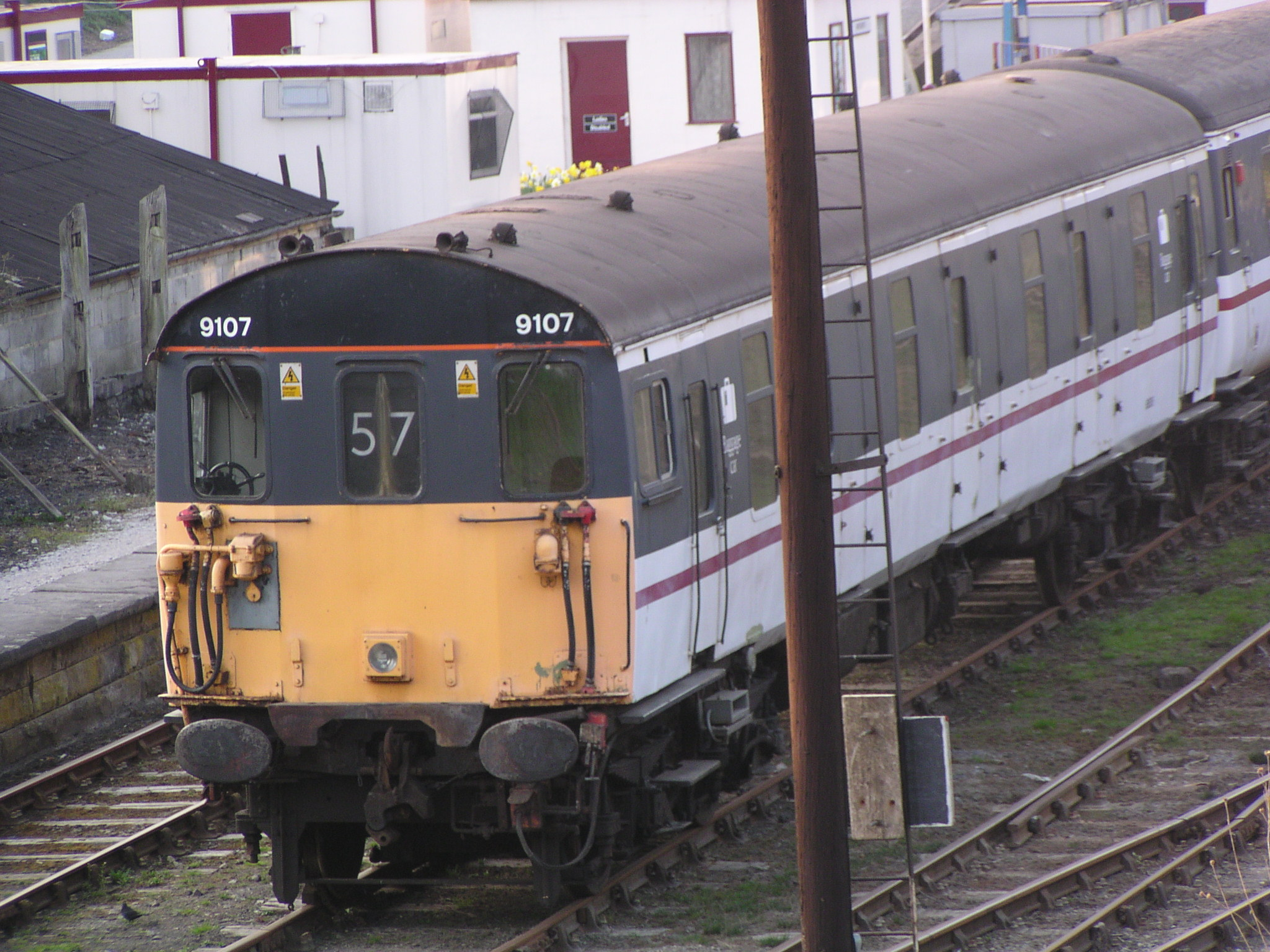 BR Class 489 no. 489107 at Wirksworth on 17th April 2003. This unit was previously used by Gatwick Express until retirement from service in 2002. It was donated to the Ecclesbourne Valley Railway by Porterbrook Leasing in 2003. Image by Phil Scott (Our Phellap)